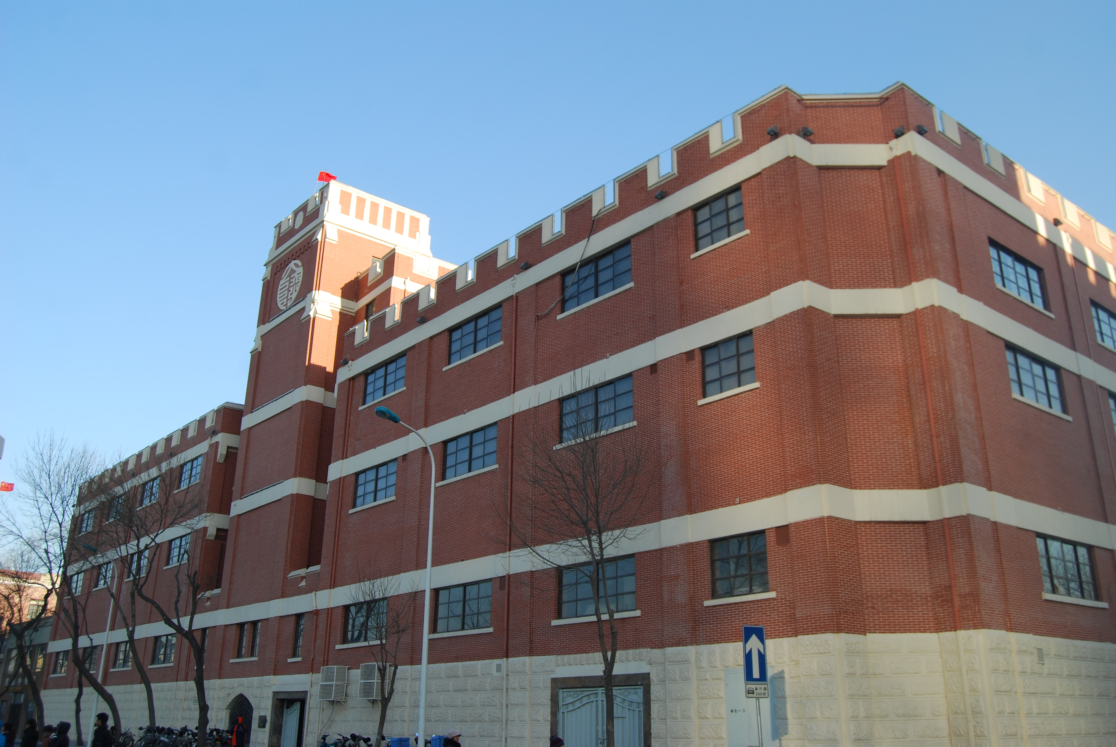 The Warehouse of the Former Continental Bank in Zhang Zizhong Lu No. 223, Heping District, Tianjin